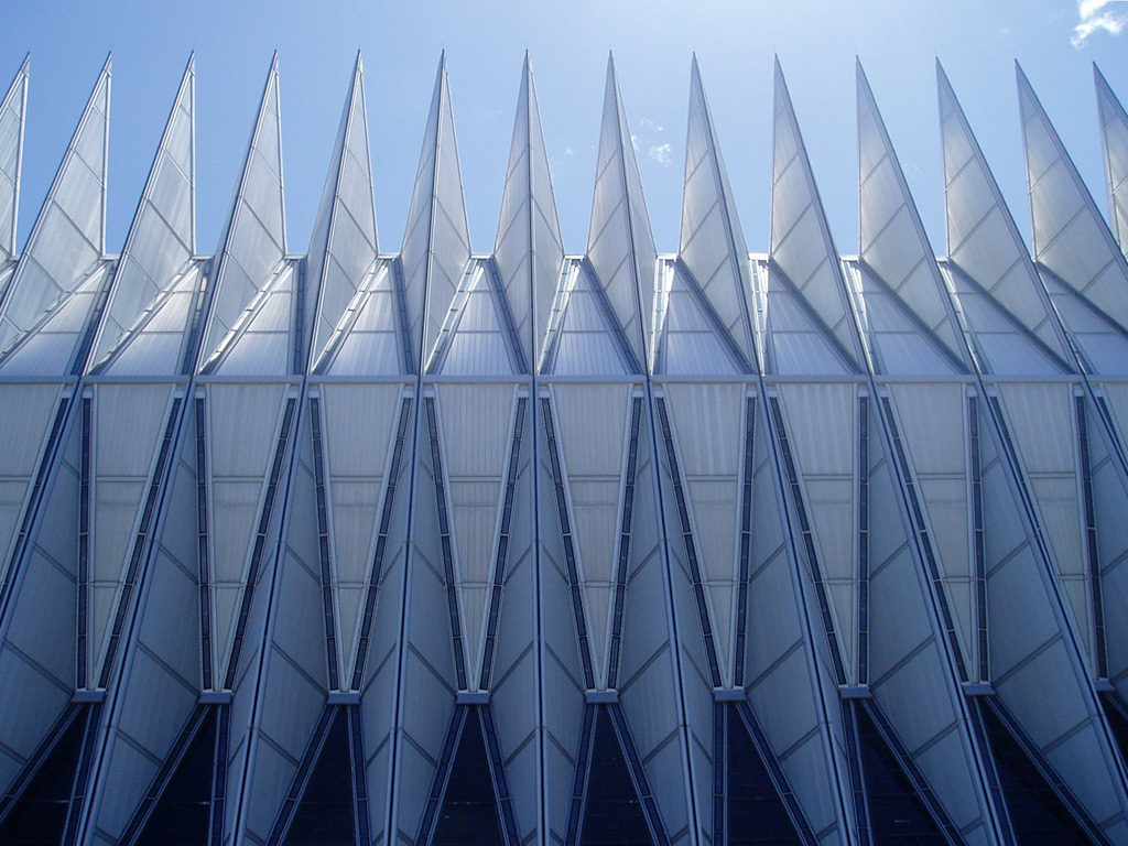 Picture taken by BigMac in June, 2005.